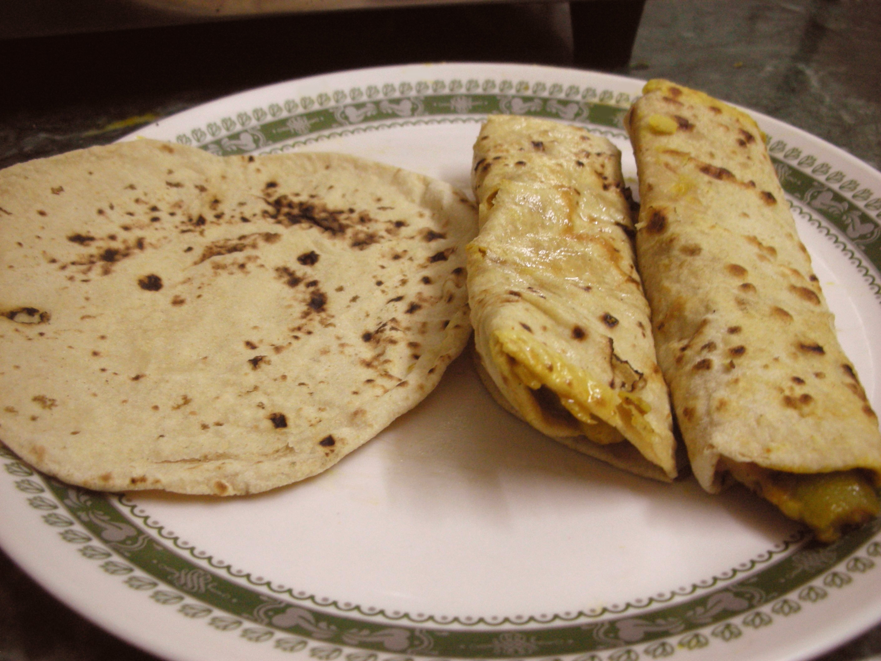 Chapati and Chapati Roll